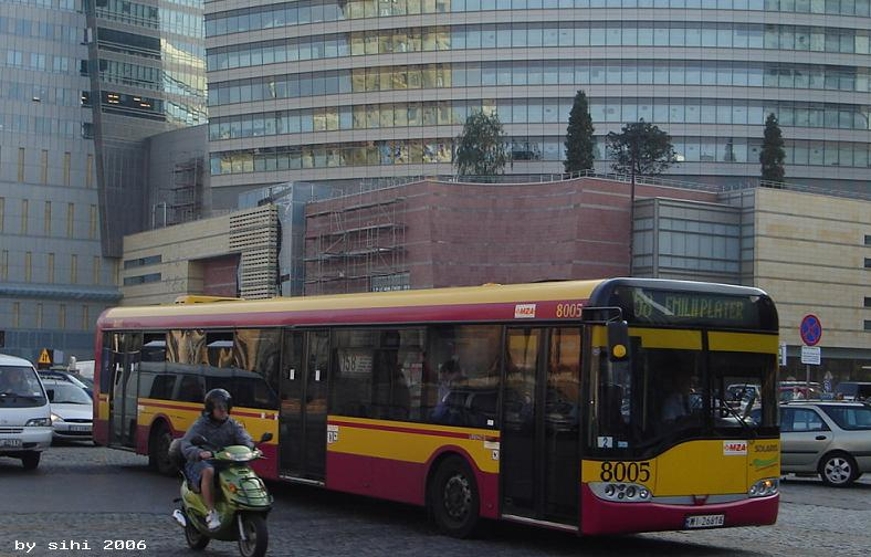 Solaris Urbino 15 Mk1 bus (#8005) in Warsaw, Poland. Year build 2001, MZA Warszawa operator.